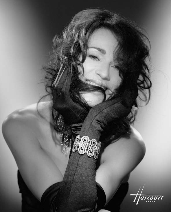 Maruschka Detmers photographed by Studio Harcourt Paris